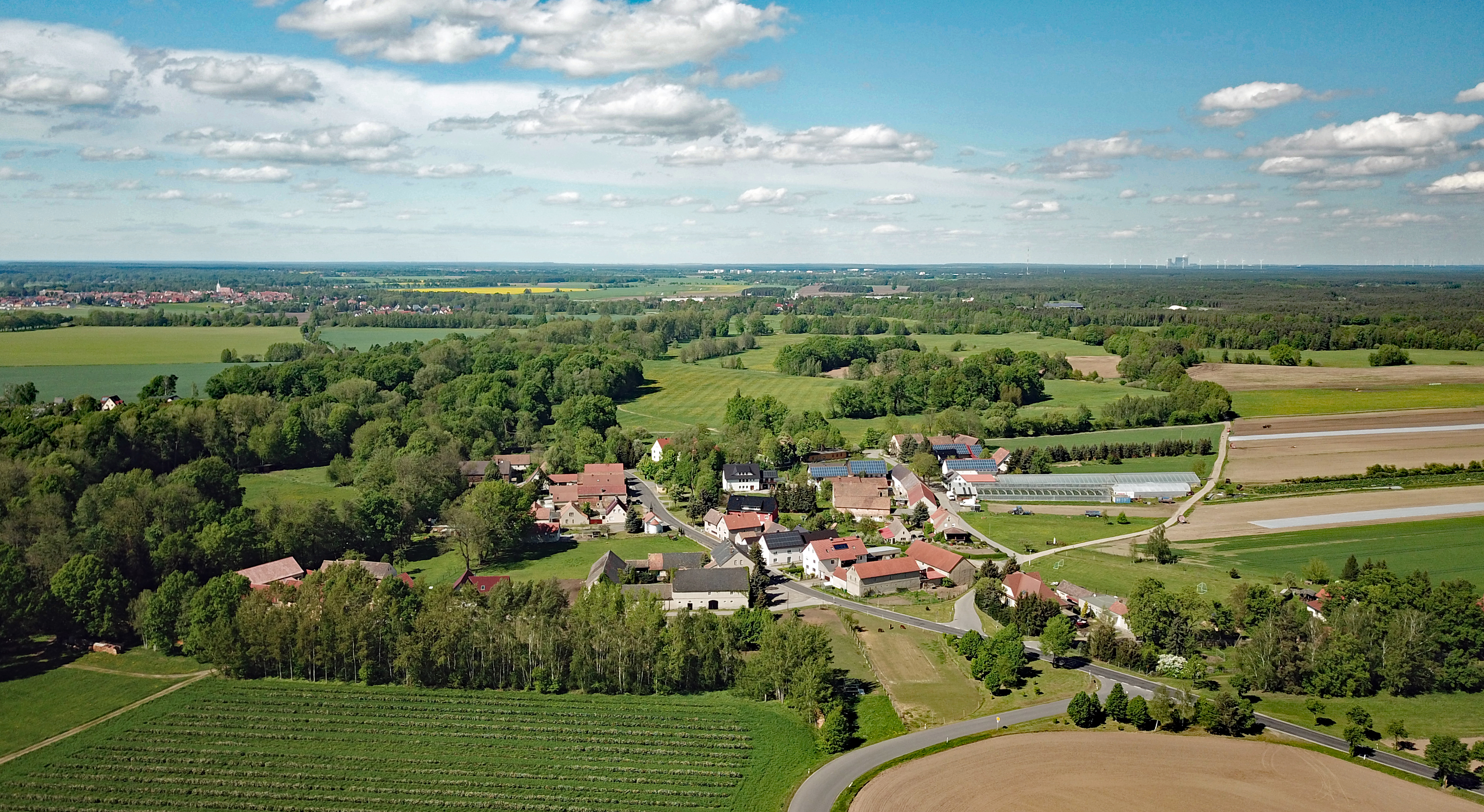 Hoske (Wittichenau, Saxony, Germany) Hornjoserbsce: Powětrowy wobraz Hózka